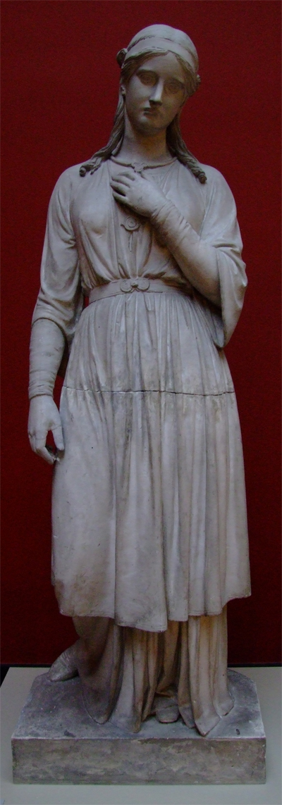 A photograph of "Nanna" (1857) by H. W. Bissen (1798-1868), housed at the Ny Carlsberg Glyptotek, Copenhagen, Denmark.